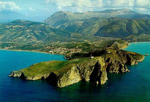 Cilentan Coast and Cilento and Vallo di Diano National Park — in Campania. 638x343 px